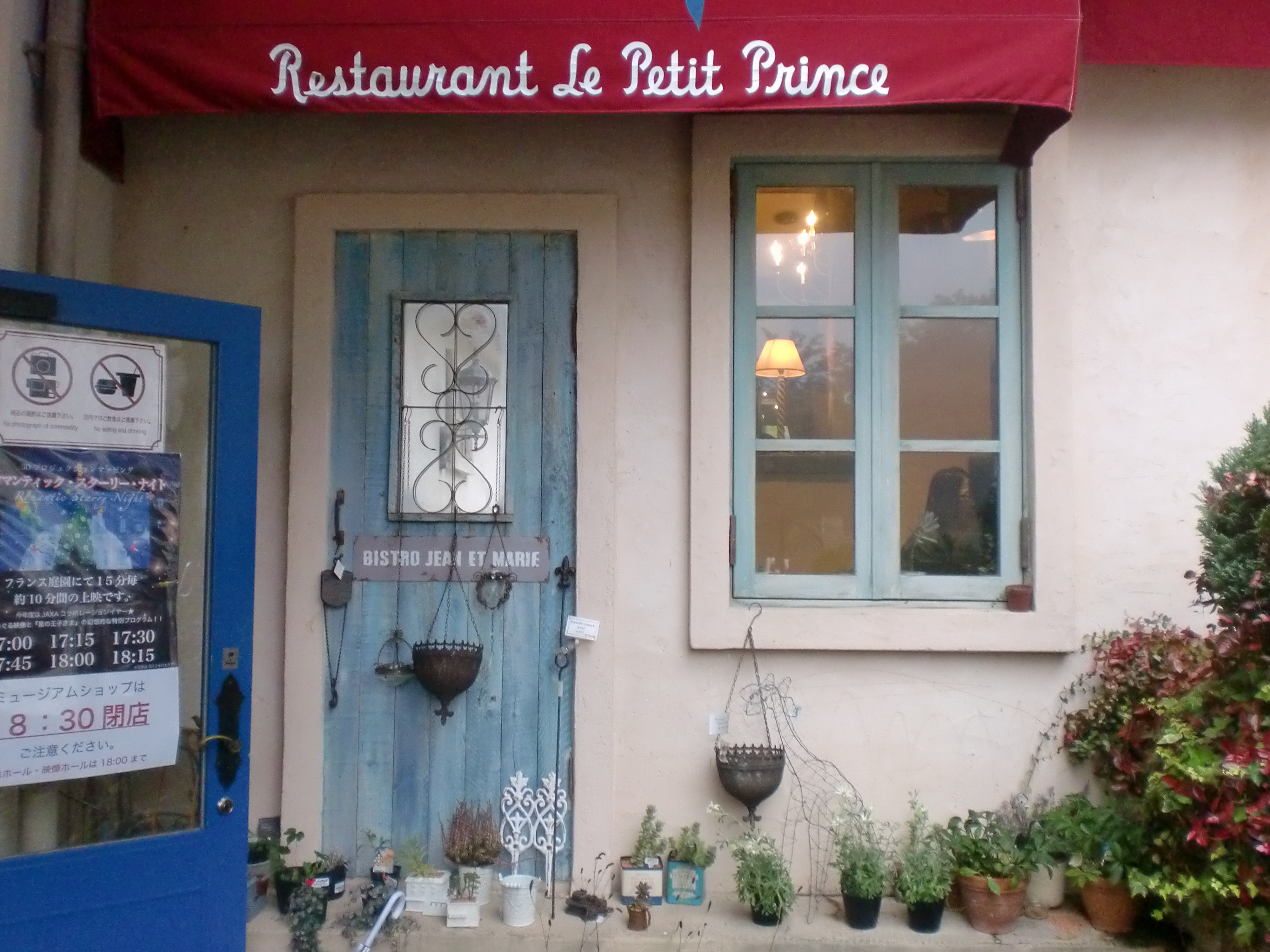 Musée du Petit Prince de Saint-Exupéry à Hakone